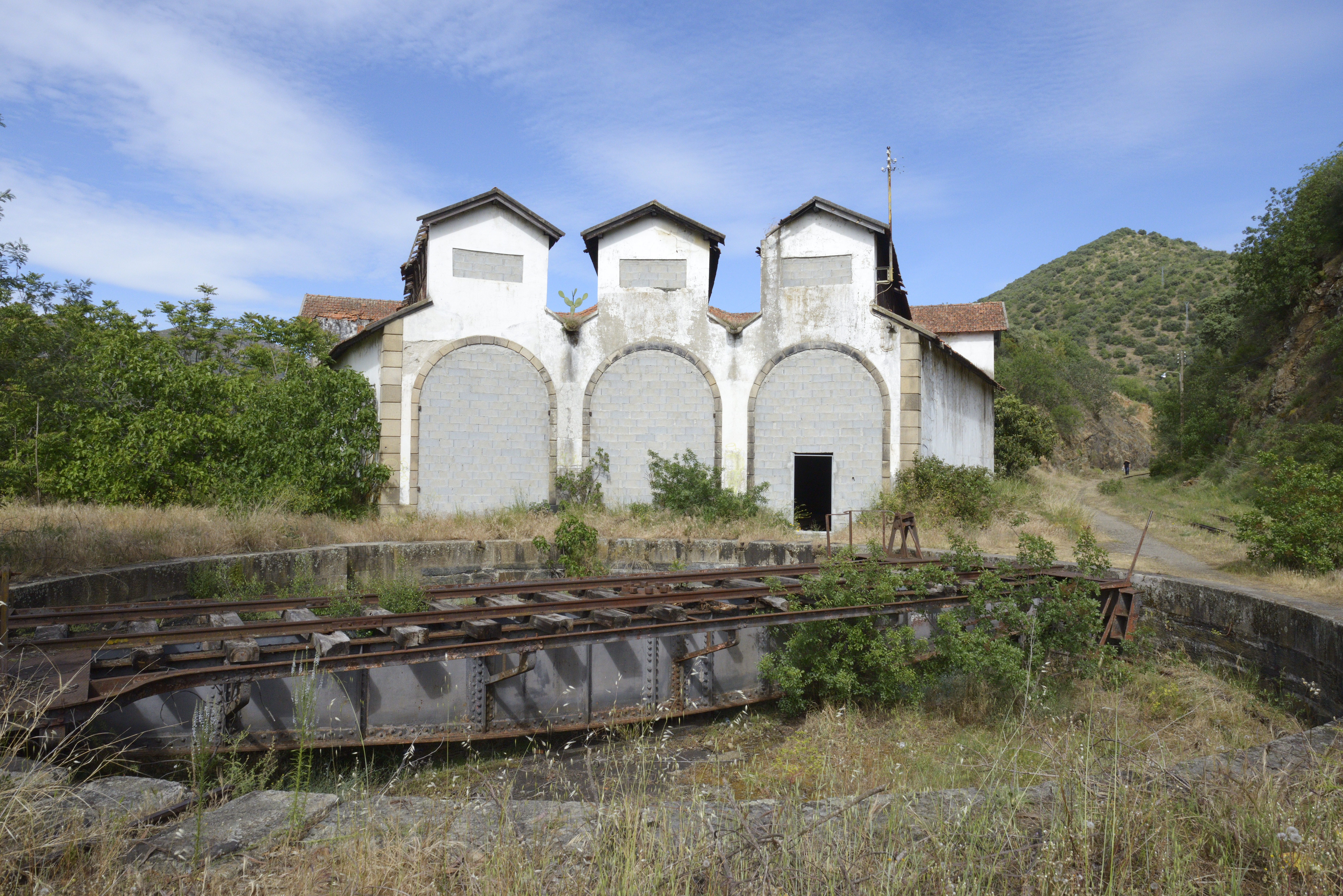 Depot at turning platform at the former train station of Barca d'Alva; Portugal